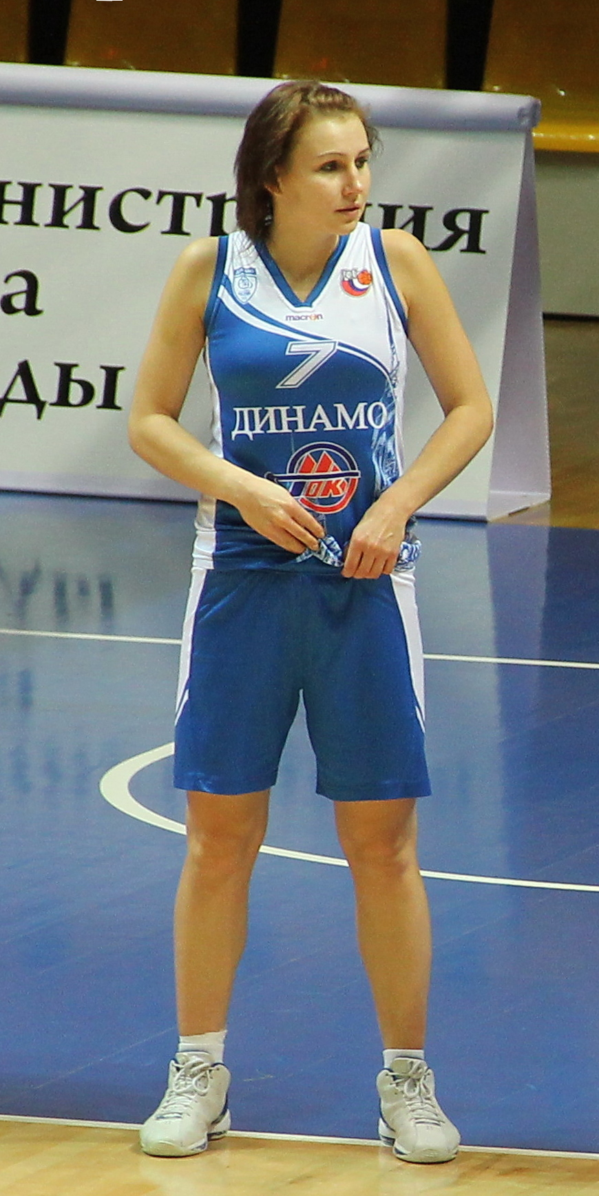 Russia, Vologda, Anastasia Fomina in game «Vologda-Chevakata» vs «Dinamo» (Kursk)